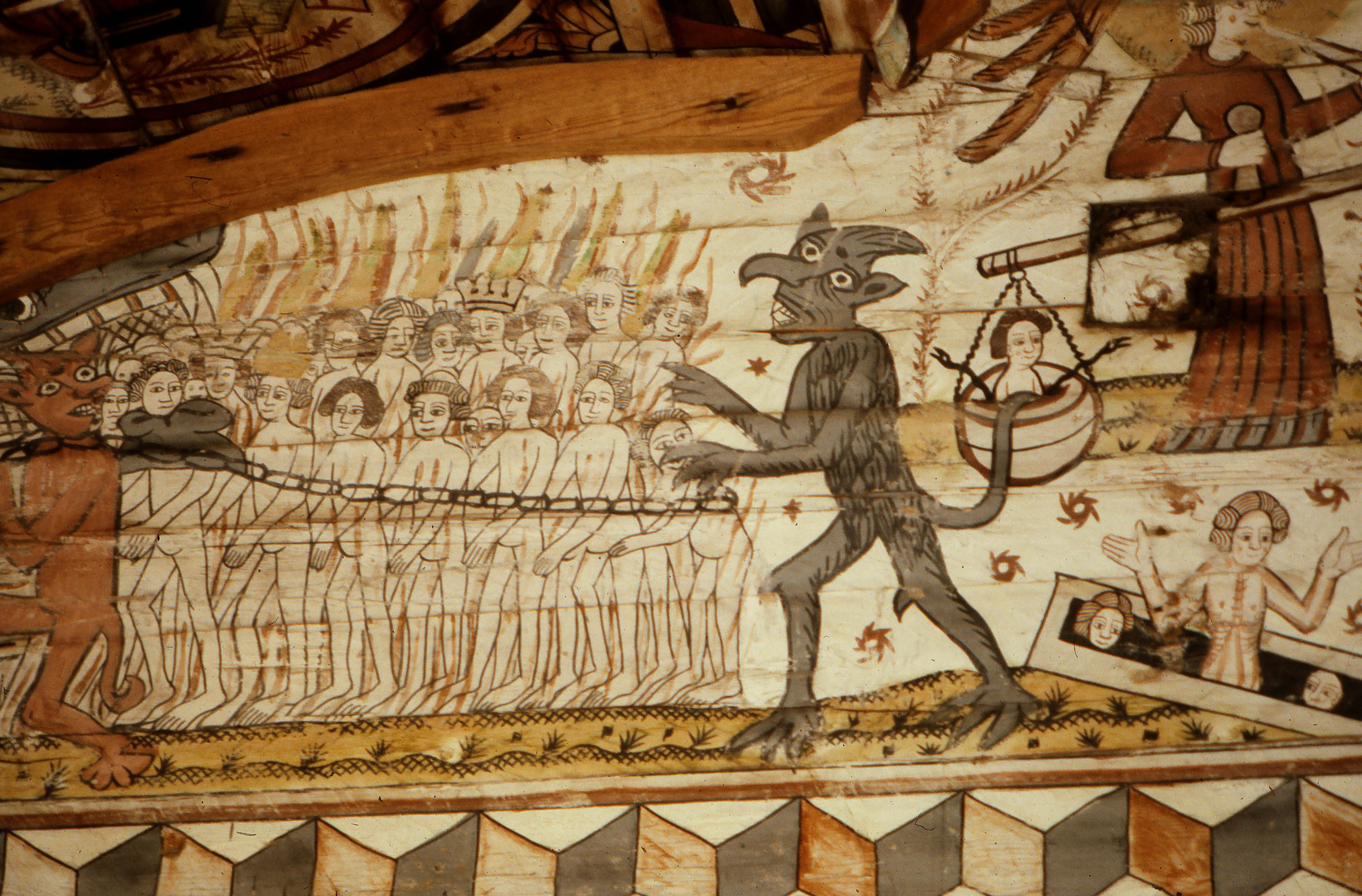 Painting from 1494 in the church of Södra Råda, Sweden, now destroyed by fire.